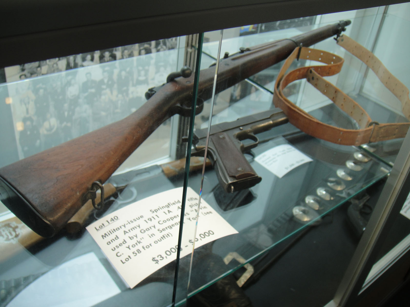 Military-issue Springfield rifle and Army 1911 1A .45 pistol used by Gary Cooper in "Sergeant York" at the Debbie Reynolds Auction Breaks Up Historic Hollywood Collection (The Paley Center for Media in Beverly Hills, Los Angeles, CA, USA).